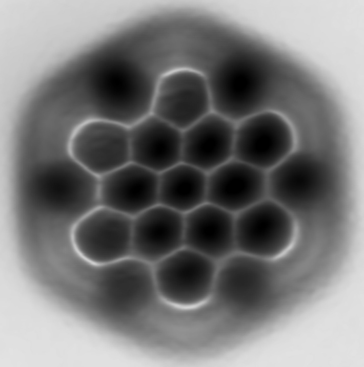 Hexabenzocoronene Atomic Force Microscope image, black and white. This molecule was synthesized at the Centre National de la Recherche Scientifique (CNRS) in Toulouse.